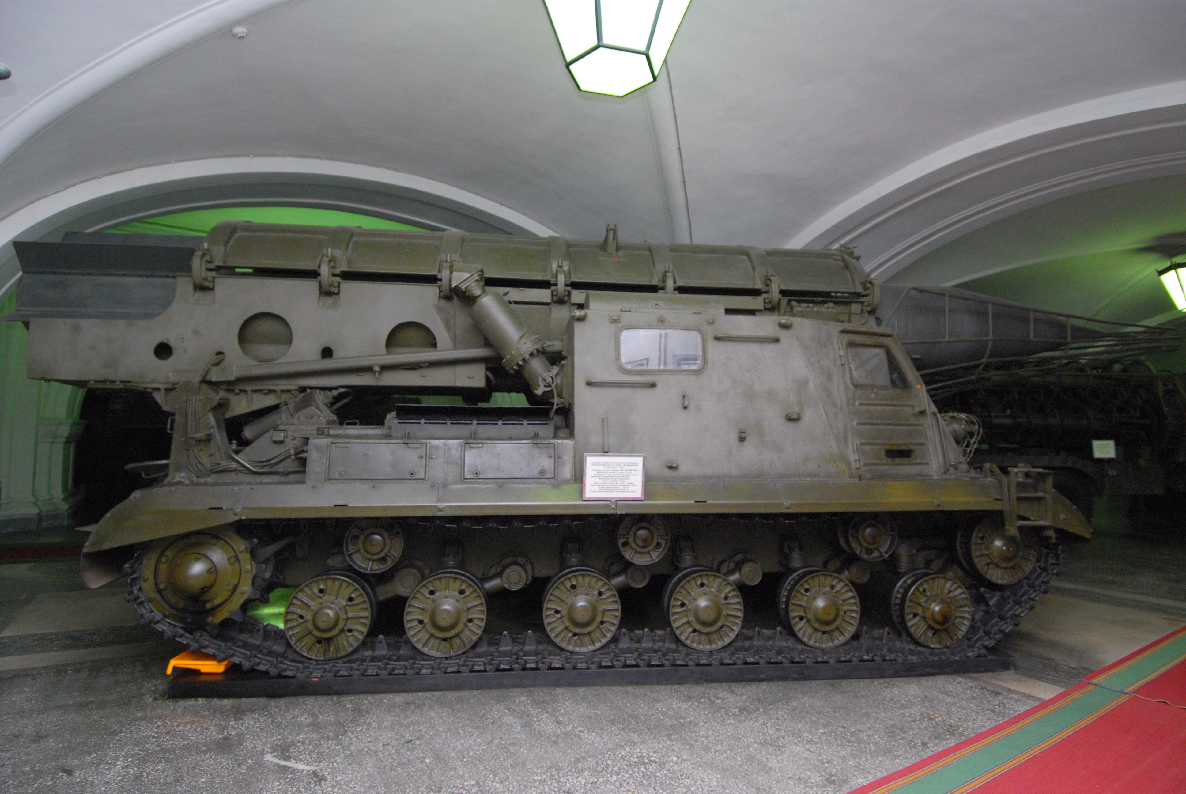 Side view of 2P4 Transporter-Erector-Launcher with 3R2 missile of 2K4 missile complex «Filin» in Saint-Petersburg Artillery museum